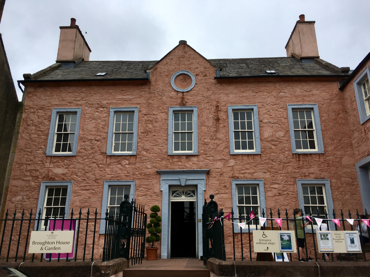 10-12 High Street, Broughton House Wikidata has entry Q17569929 with data related to this item.